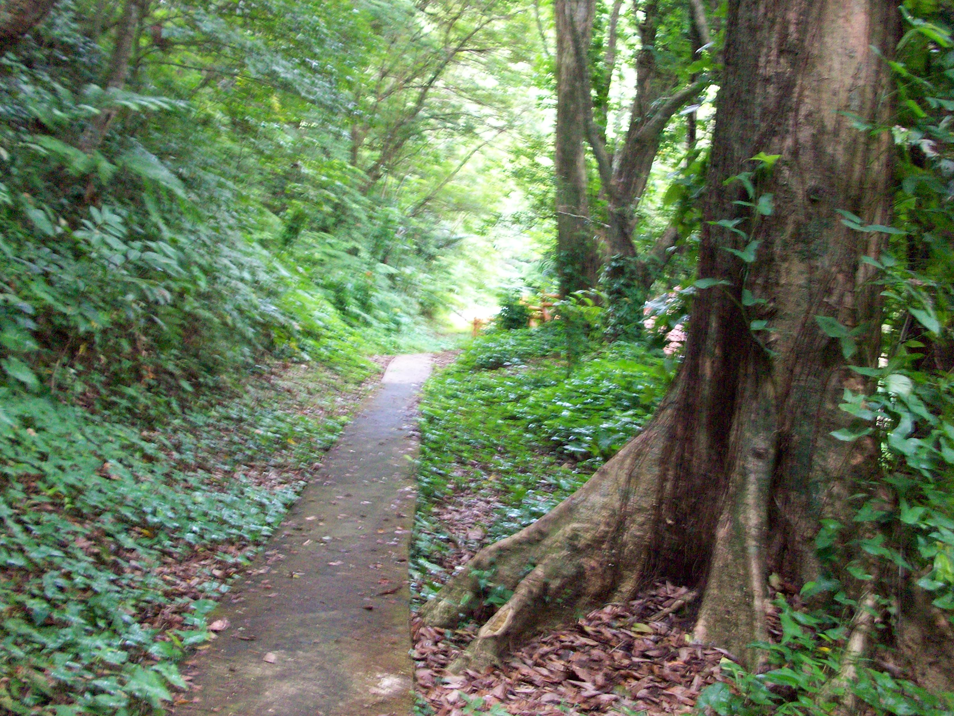 A trail going around the lake Bulusan and possible way going to Lake Aguingay.